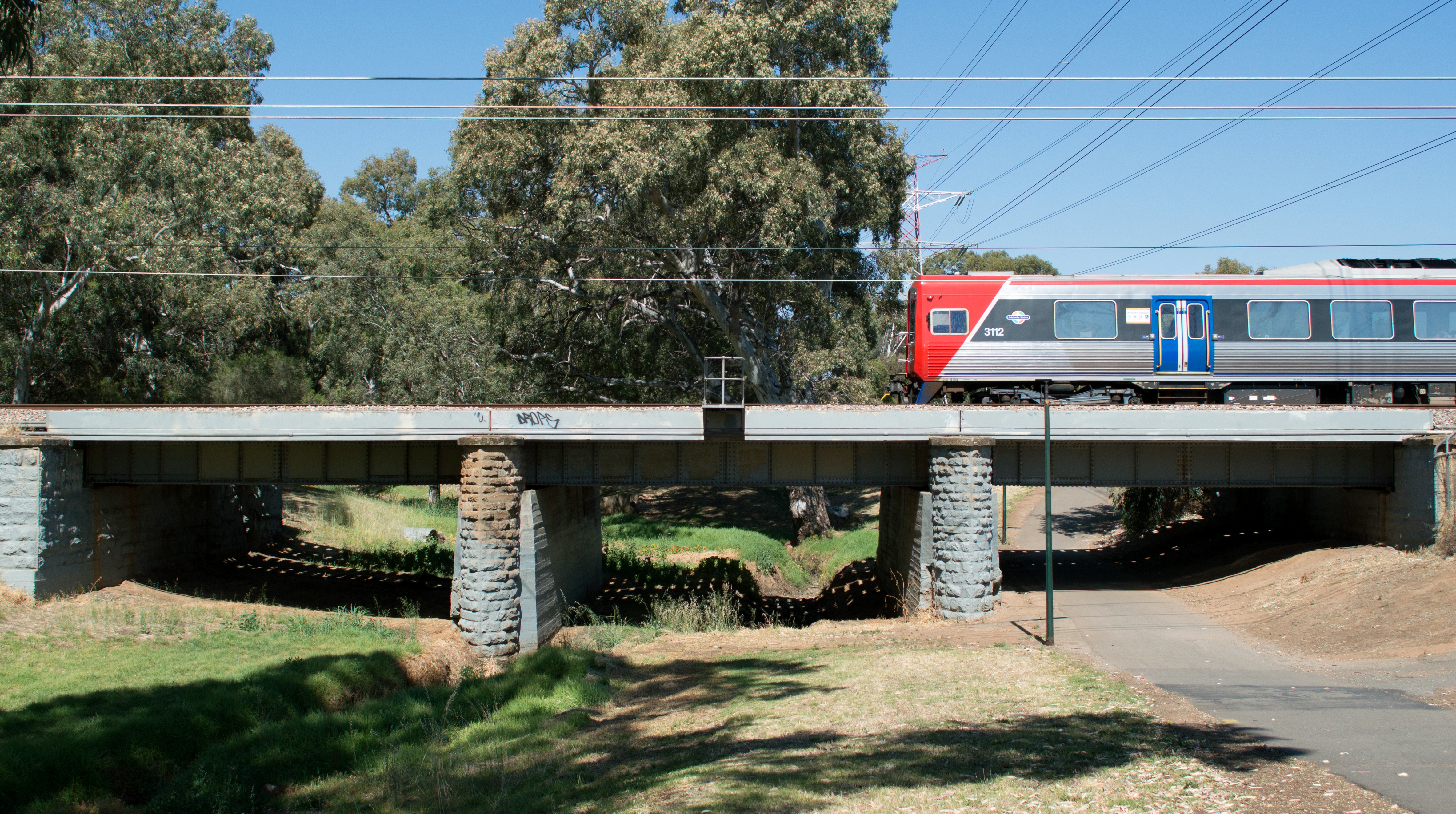 Historic rail bridge over the little para river with 3100 class Railcar '3112'